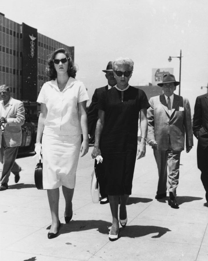 Lana Turner with daughter Cheryl Crane, 1958